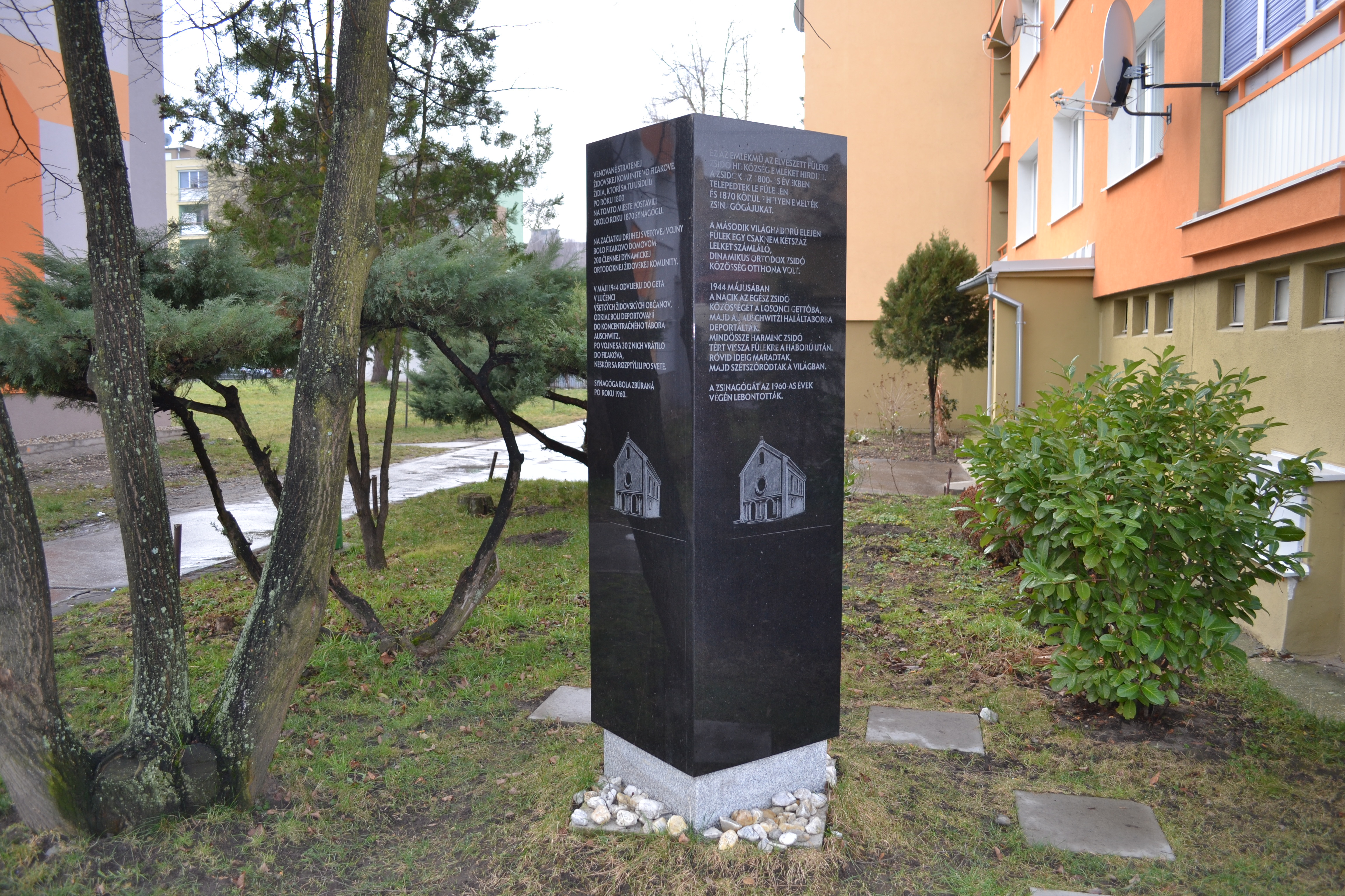 Monument dedicated to the lost Jewish community in Fiľakovo. It is located in a place where there was a synagogue, which was demolished in 1960.